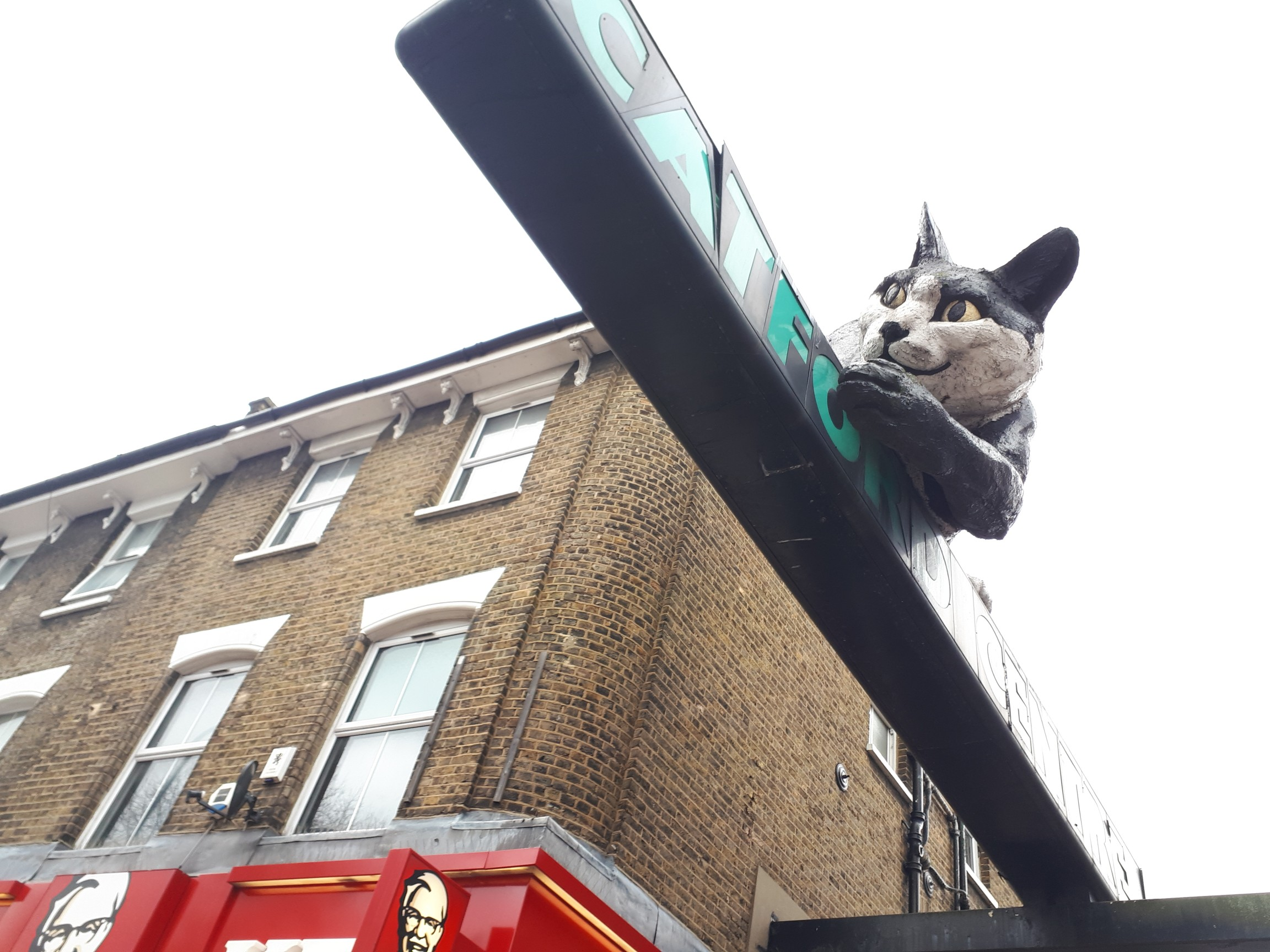 The Catford Cat - a giant statue in Catford town centre, depicting a giant cat clawing at the Catford Centre sign.